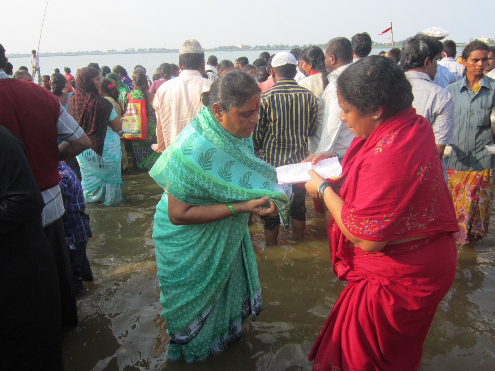 giving roti in rottela panuduga in Nellore